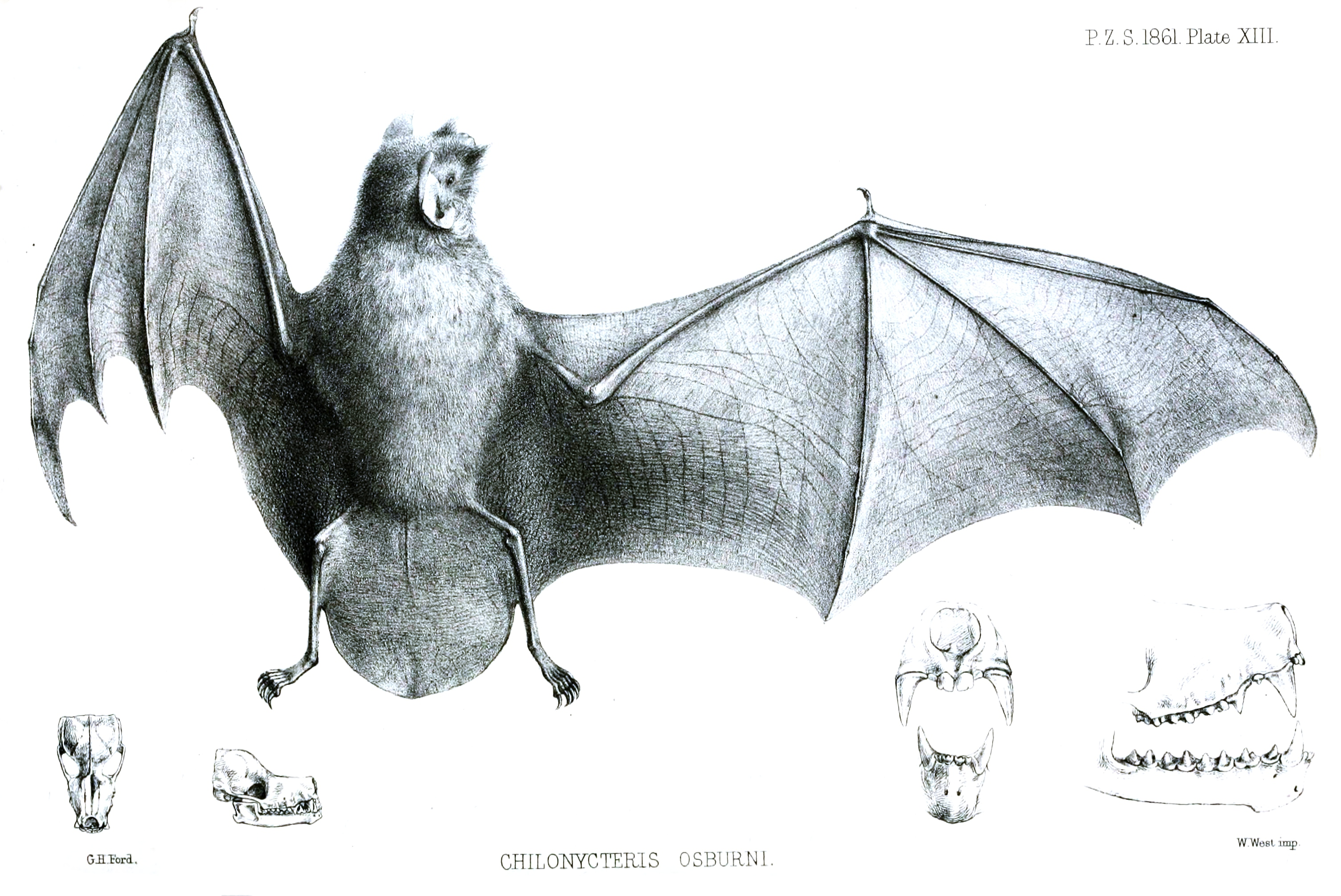 Chilonycteris osburni=Pteronotus parnellii osburni